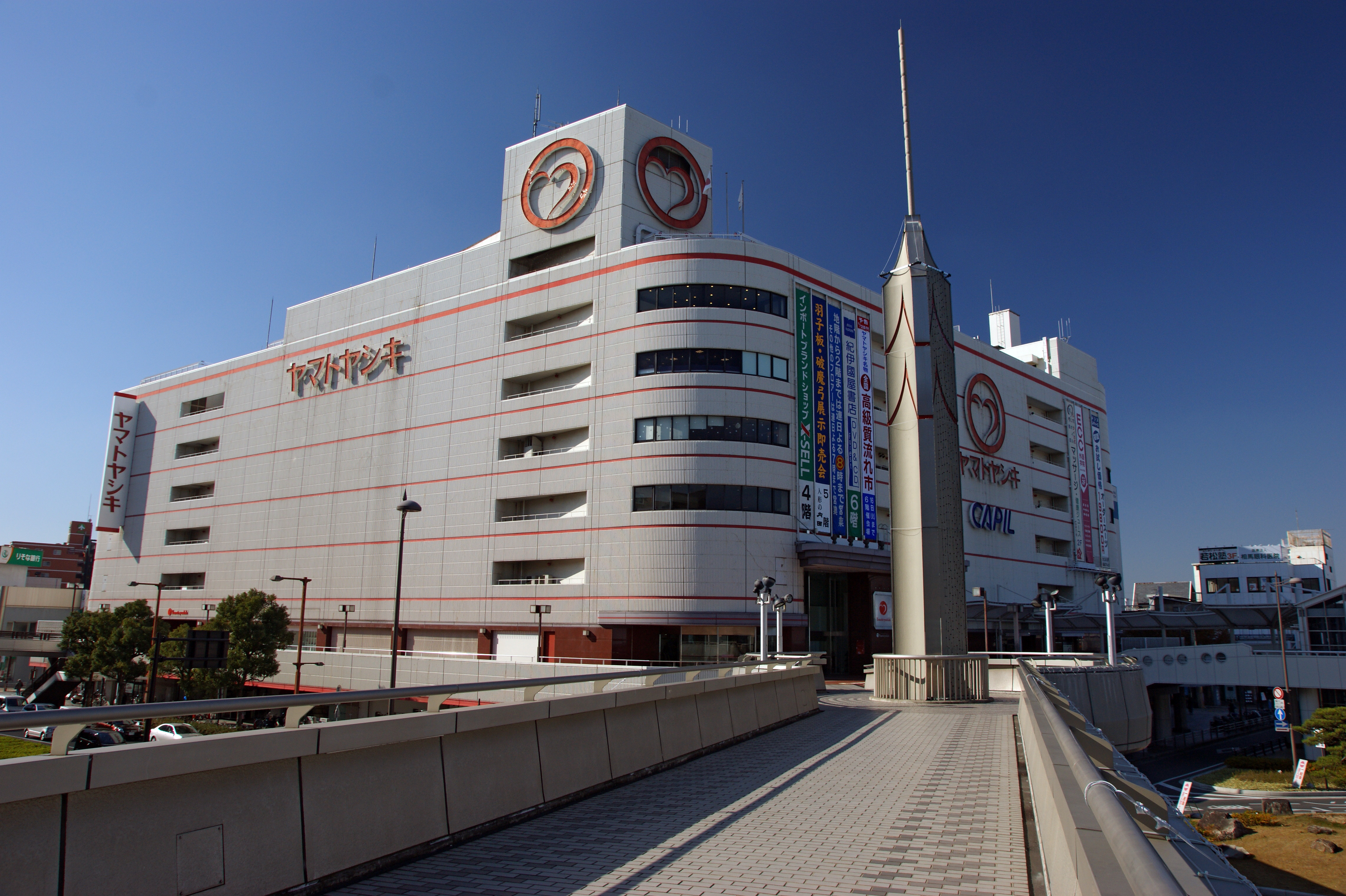 Yamatoyashiki department Kakogawa store, Kakogawa, Hyogo prefecture, Japan